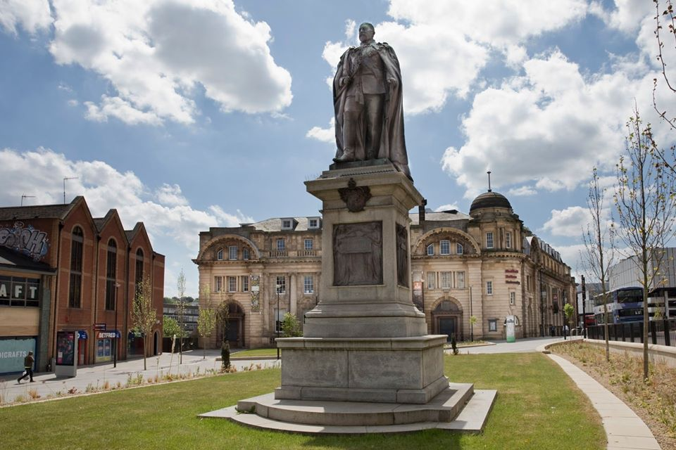 Fitzallan Square, Sheffield, June 1, 2020